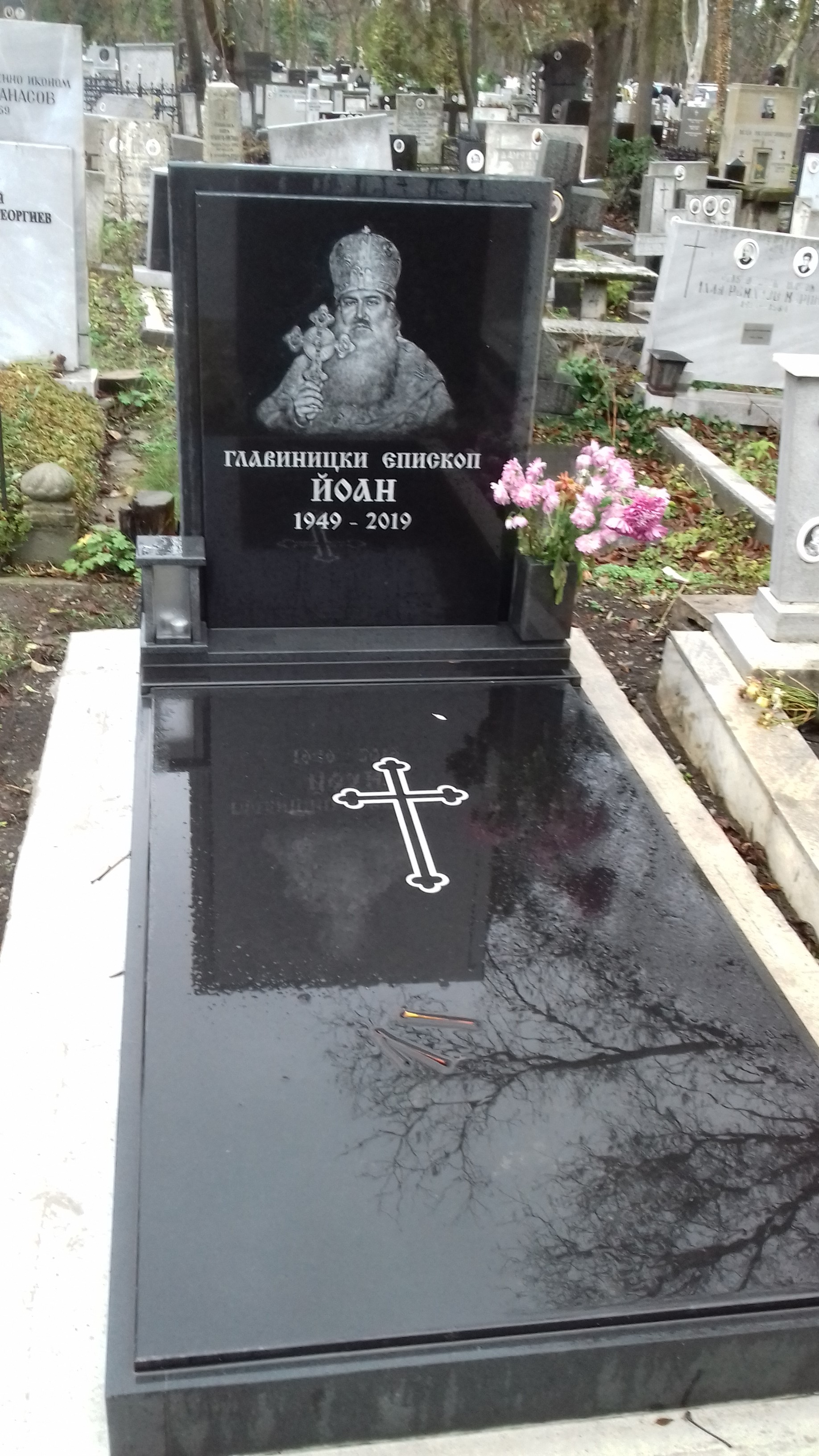 John of Glavinitsa Grave